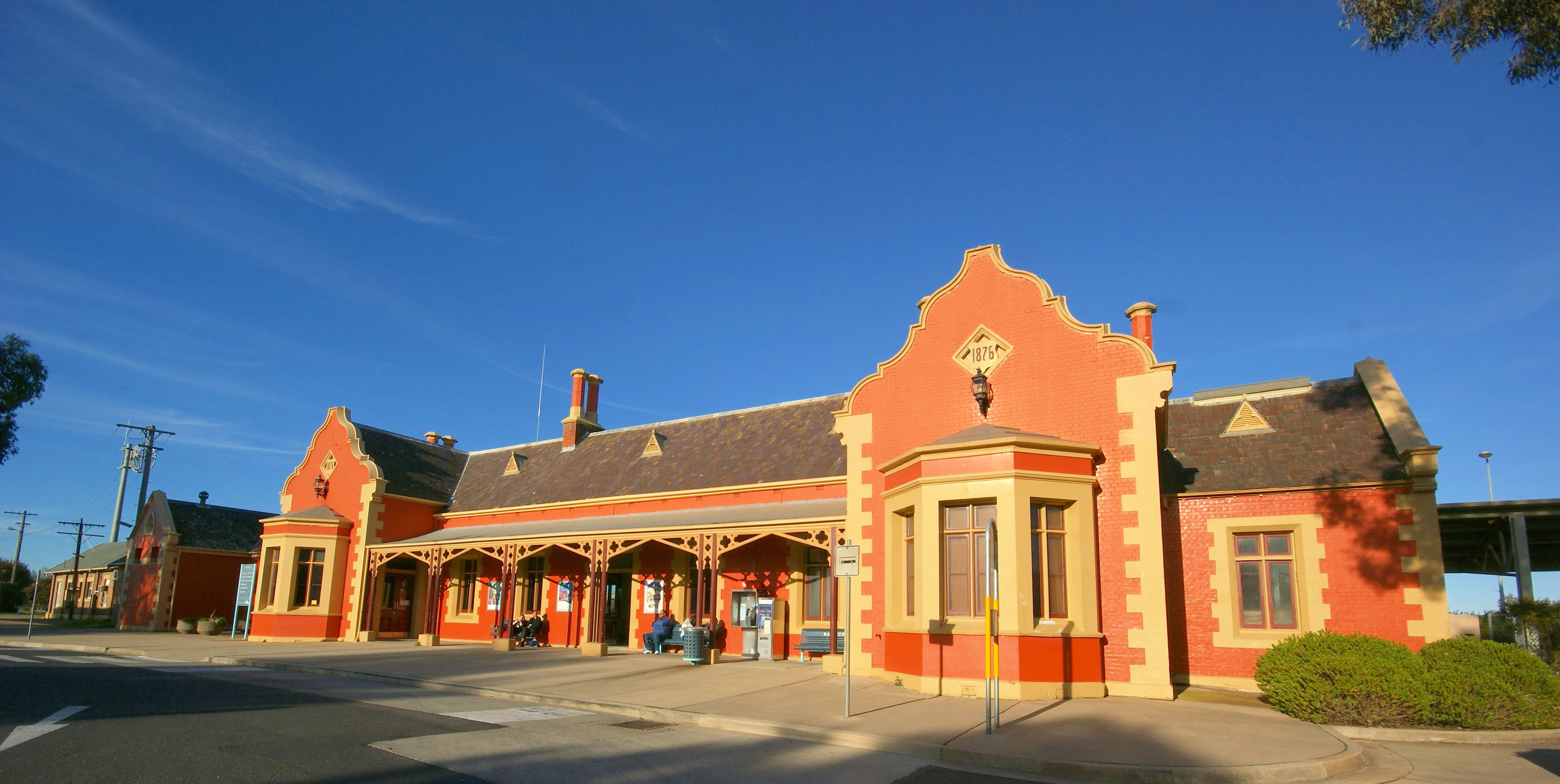 Railway Station Bathurst, New South Wales, Australia. Built 1876.